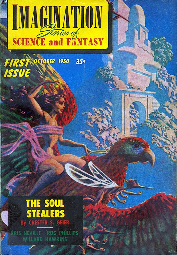 Imagination magazine cover Web source: Internet Speculative Fiction Database Since the magazine was published in the U.S. before 1964, the original copyright lasted 27 years from the end of the year of publication. The copyright holder was free to renew the copyright any time during the year 1978, but they did not do so. (All copyright renewals since 1977 are on file at the United States Copyright Office, and can be searched online. The copyright has expired. Cover by Hannes Bok, pseudonym of Wayne Woodward. No copyright renewal by artist or compilation copyright of magazine in Copyright Catalog. This is a simple scan of the cover with no basis for copyright as derivative work. It's in the public domain. Apparently scanned by Bill Kemp or Howard DeVore.[1] Higher resolution .jpg of this scan is available at that site. "Copyrights whose first 28-year term of copyright was secured between January 1, 1950, and December 31, 1963, including works protected in their first term under the Universal Copyright Convention, still had to be renewed within strict time limits in order to receive the maximum statutory duration. U.S. adherence to the Berne Convention did not alter this requirement. Renewal registration had to be made within a year period beginning on December 31 of the 27th year of the copyright and running through December 31 of the following year. If a valid renewal registration was made at the proper time, the second term lasts for 67 years. This is 39 years longer than the 28-year renewal term provided under the 1909 law and makes the two terms of protection for the renewed copyright last for a total of 95 years. However, if renewal registration was not made within the statutory time limits, these copyrights expired at the end of their first terms and protection was lost permanently."[2]